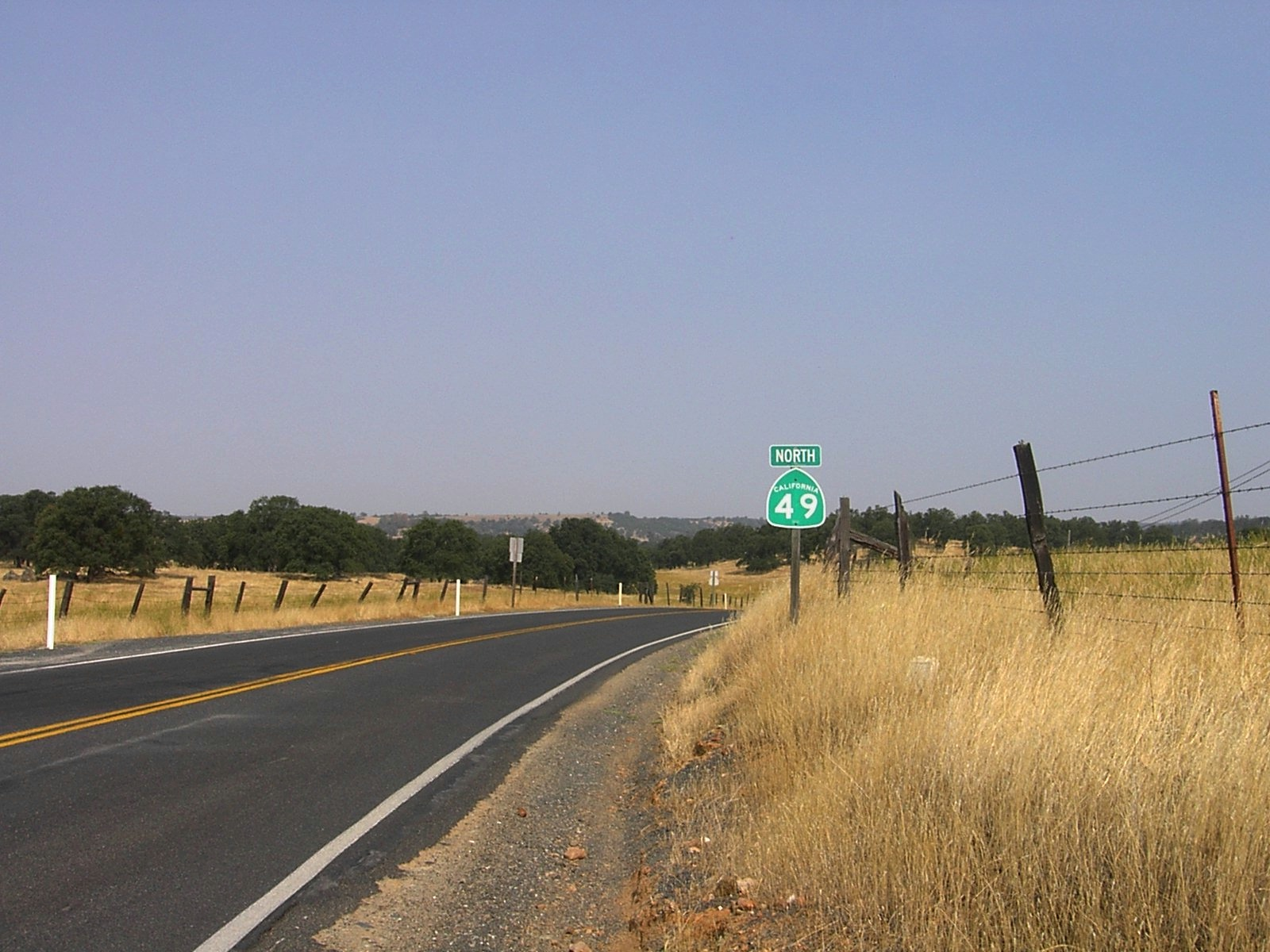 Heading north along CA 49 in Tuolumne County, CA.